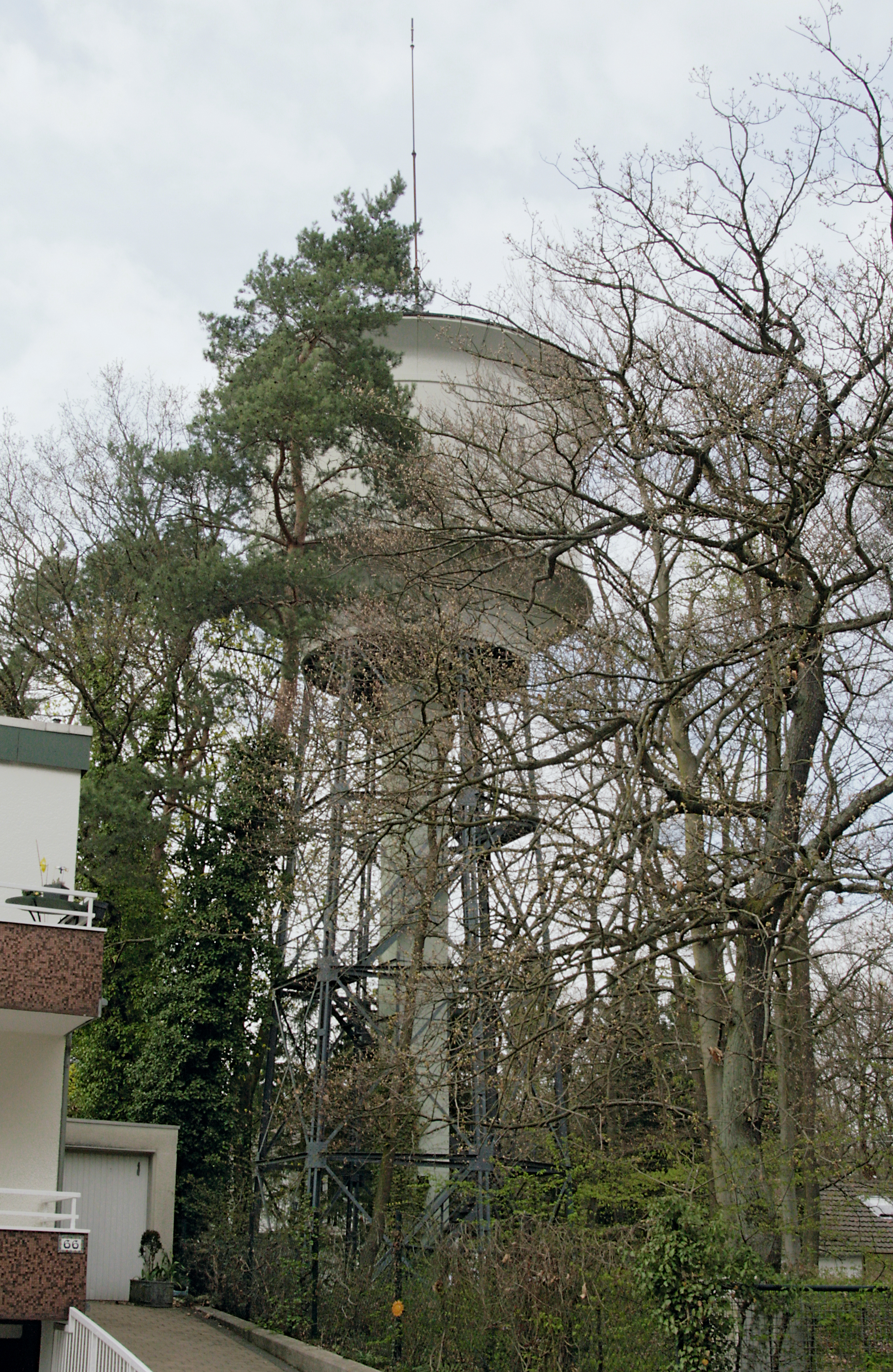 Cultural heritage monument (water tower) in Bad Godesberg